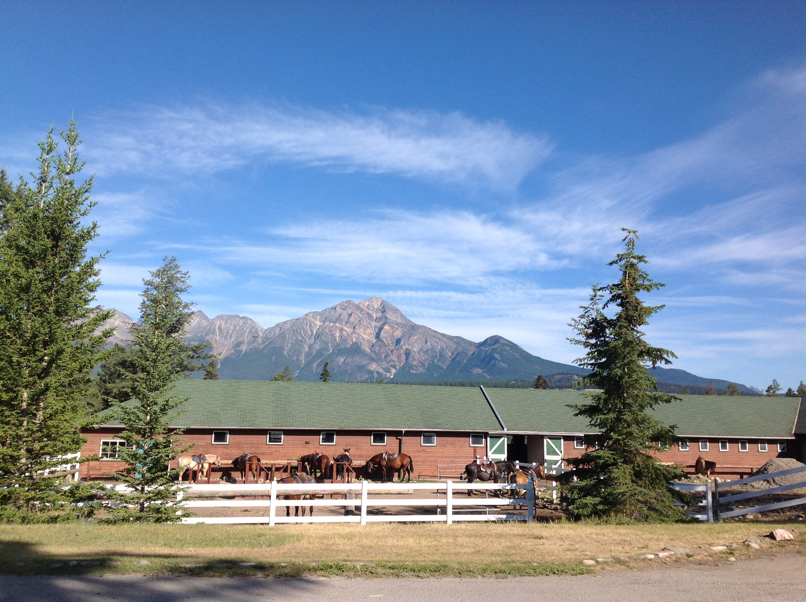 Jasper National Park, Canada Srpski (latinica): Ergela konja u Nacionalnom parku Dzasper, Kanada